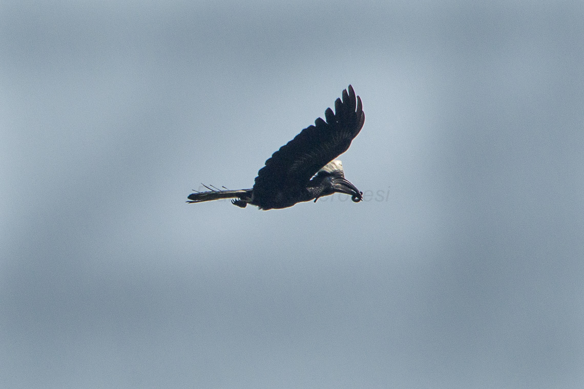 An Yellow-casqued Hornbill (Ceratogymna elata) in the Ankasa Conservation Area (Ghana)